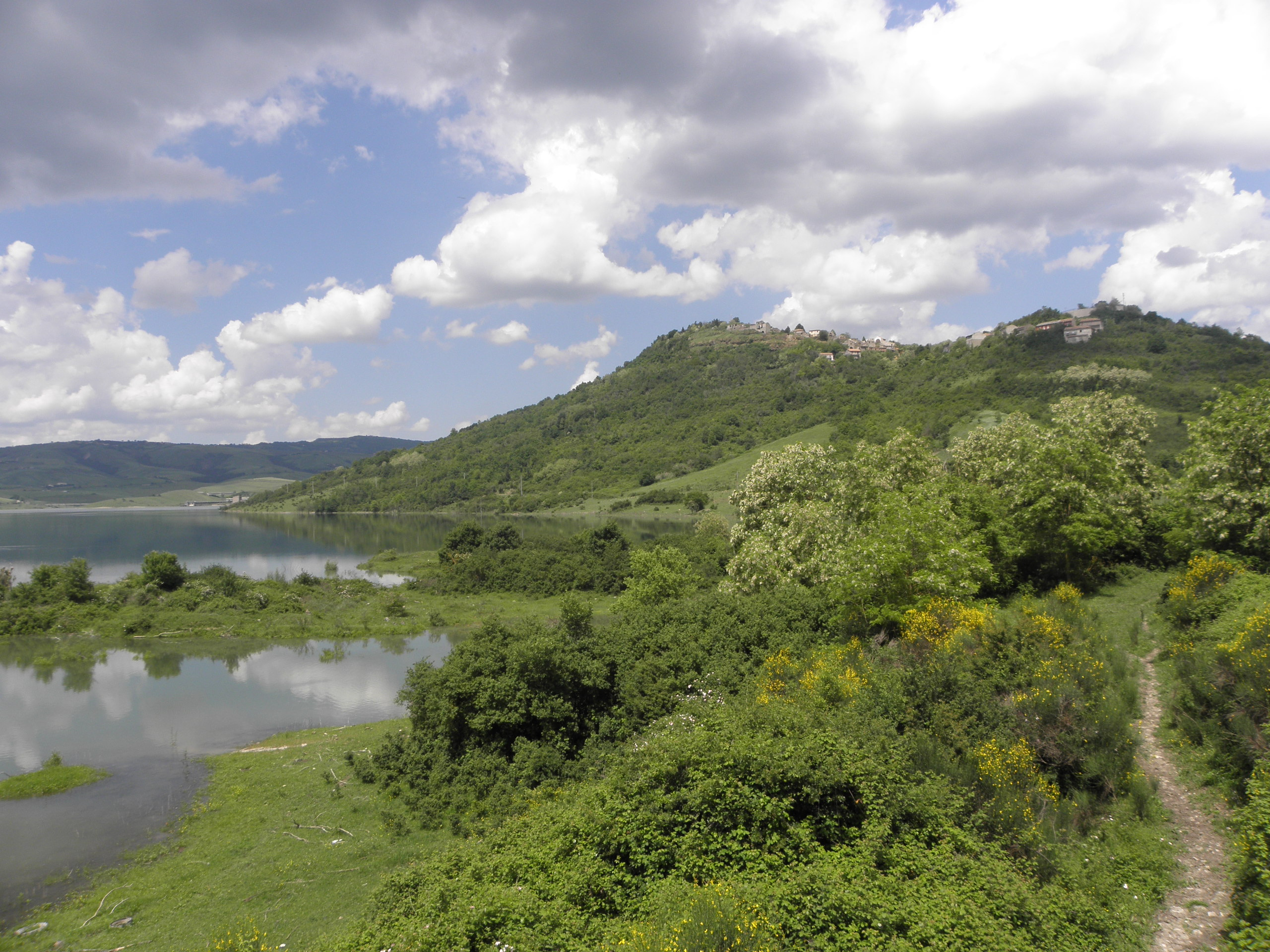 The old location of Conza on the top of the hill and the lake.